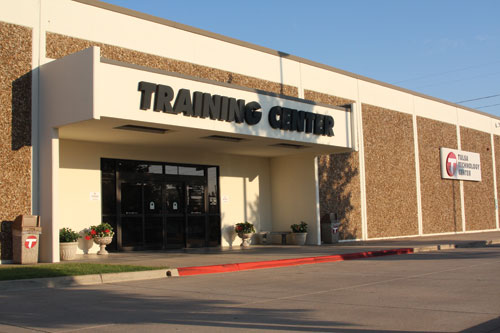 TTC Training Center Campus